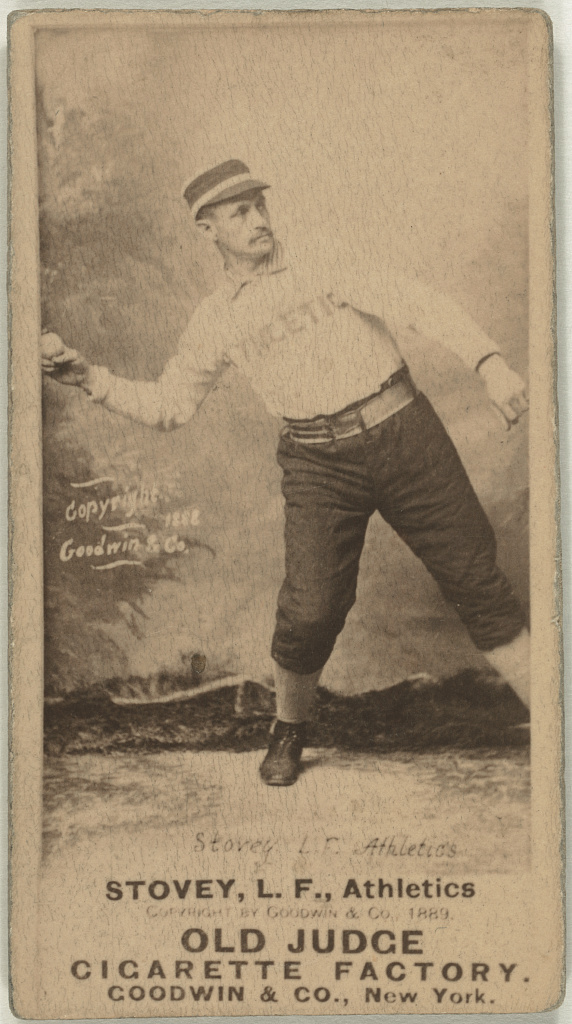 Title: Harry Stovey, Philadelphia Athletics, baseball card portrait Abstract/medium: 1 photographic print : albumen.